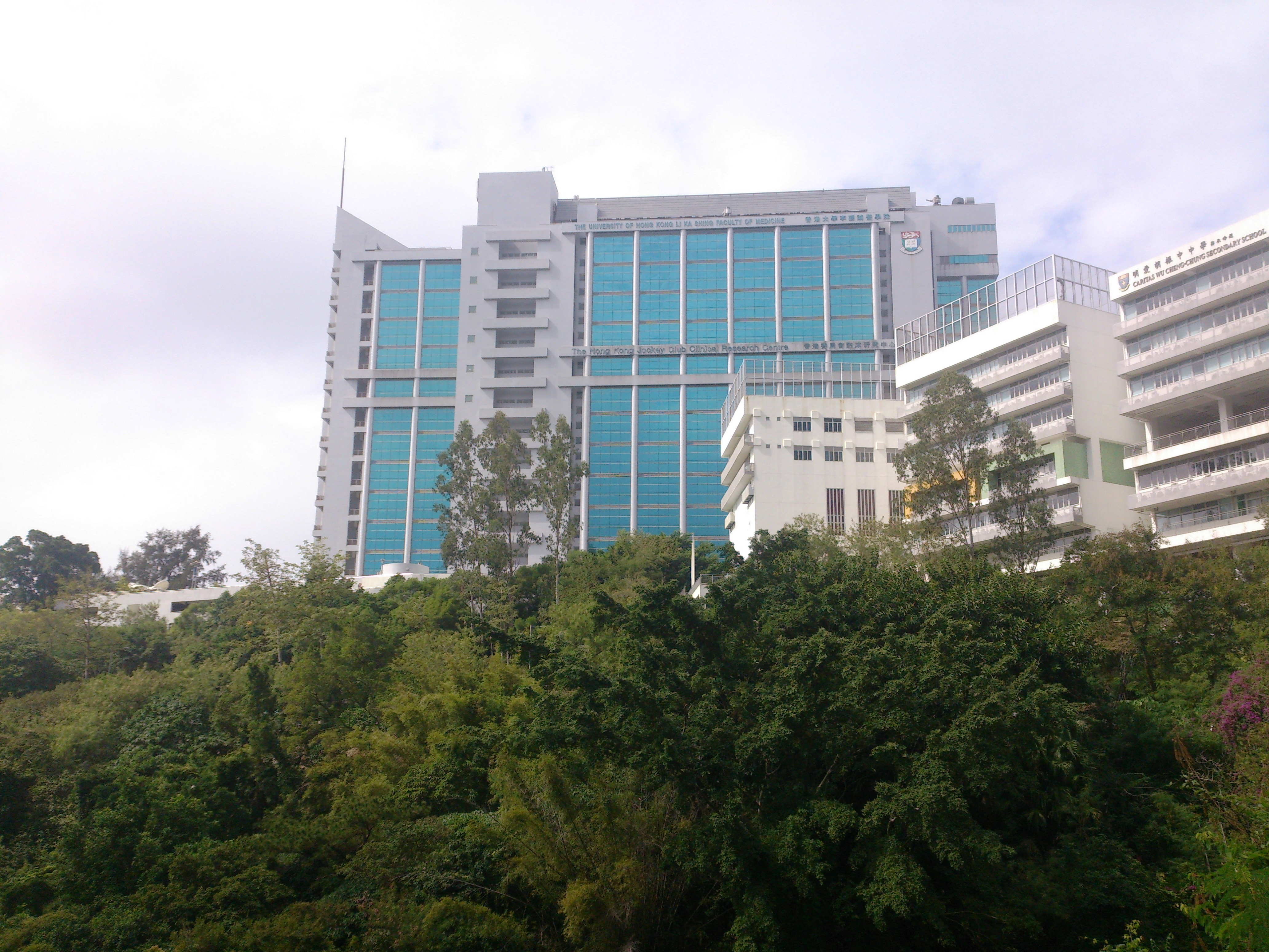 Far view of HKU Li Ka Shing Faculty of Medicine